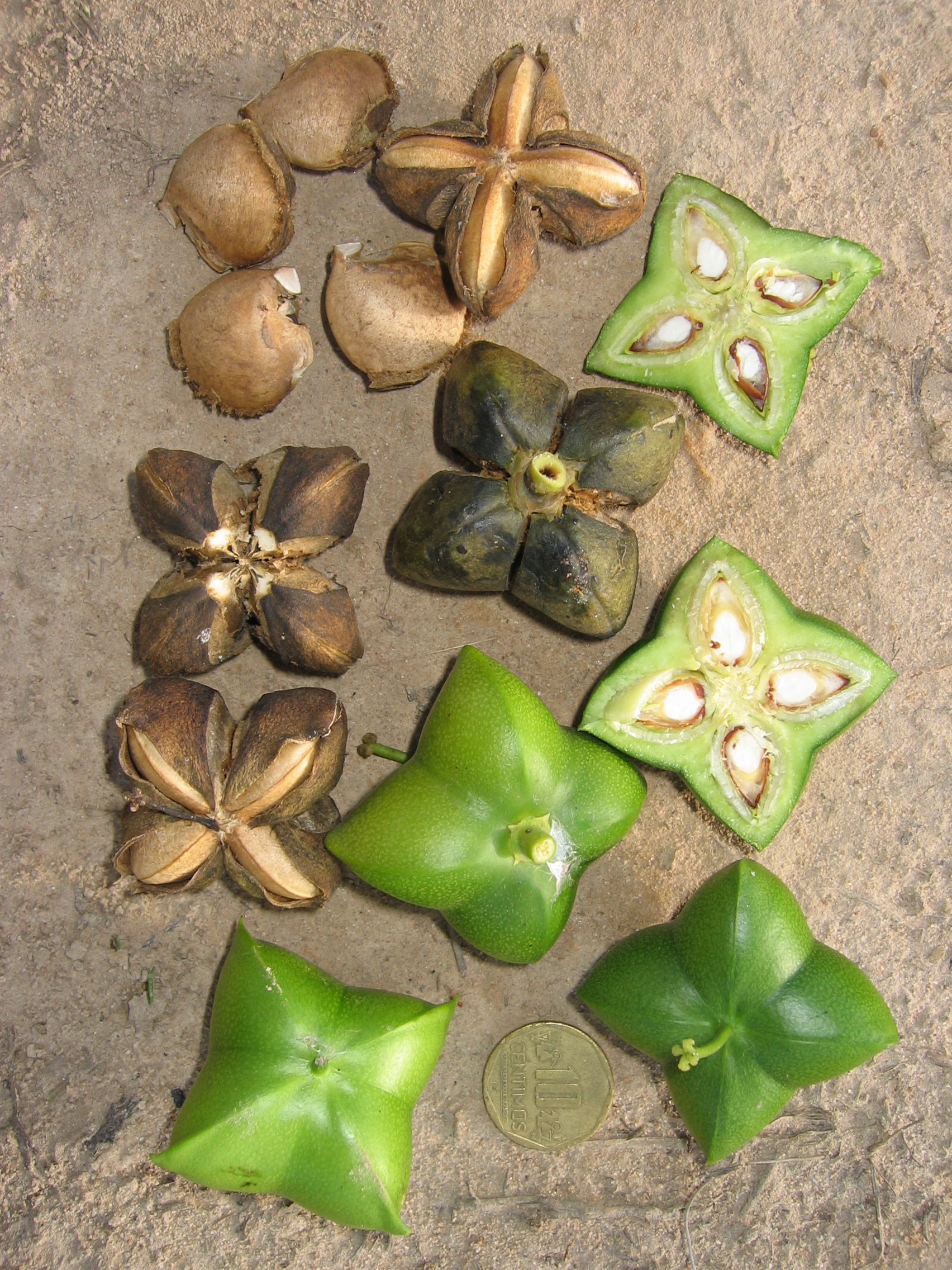 Plukenetia volubilis (Euphorbiaceae), vernacular name: sacha inchi. Amazonian species with edible seeds, location: Pucallpa, Ucayali, Peru. Fruits from experimental cultivation at INIA station, Pucallpa.